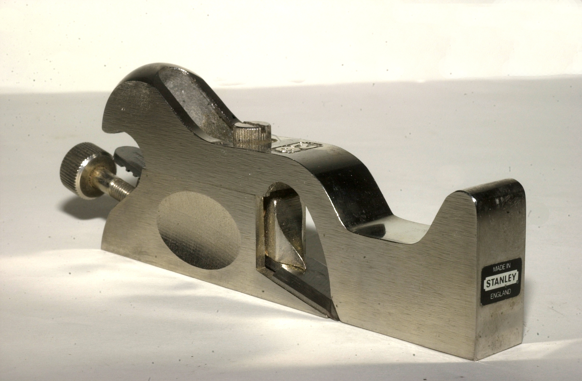 Stanley #92 Cabinet Maker's Rabbet Plane